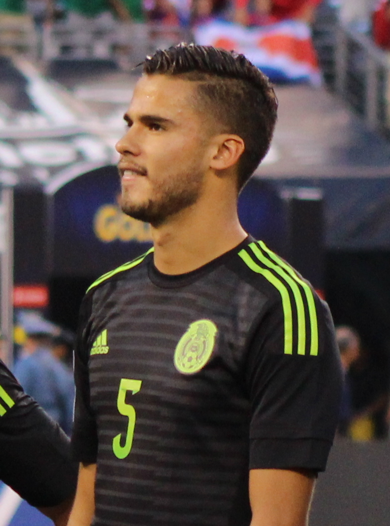 Mexico's Men's National Team